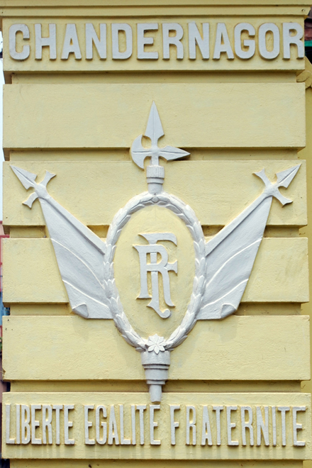 Inscription on Chandannagar Gate